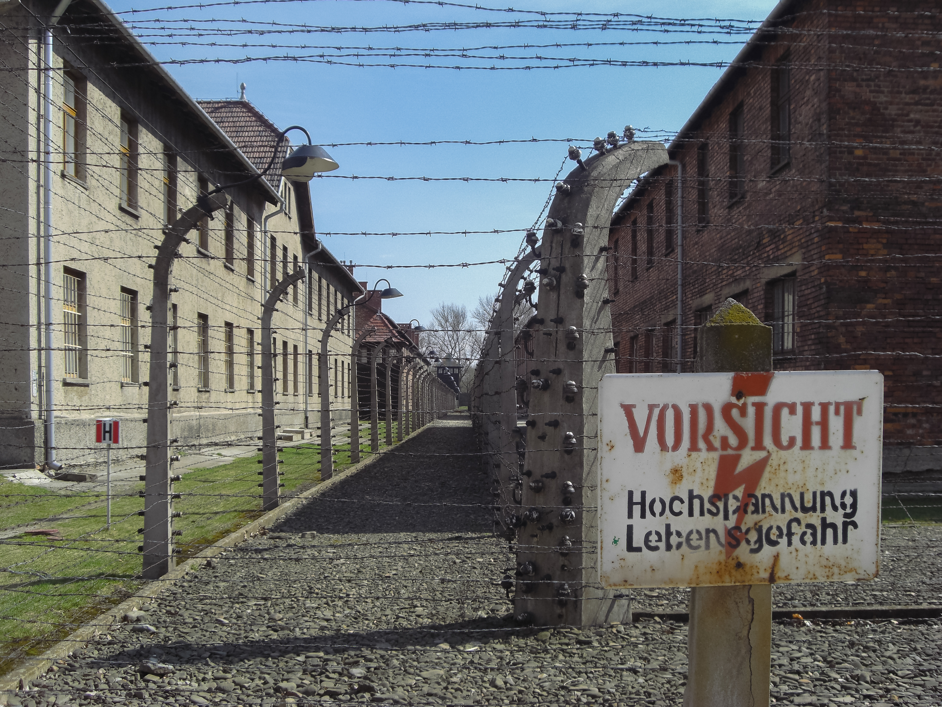 Scene of Auschwitz I, Poland